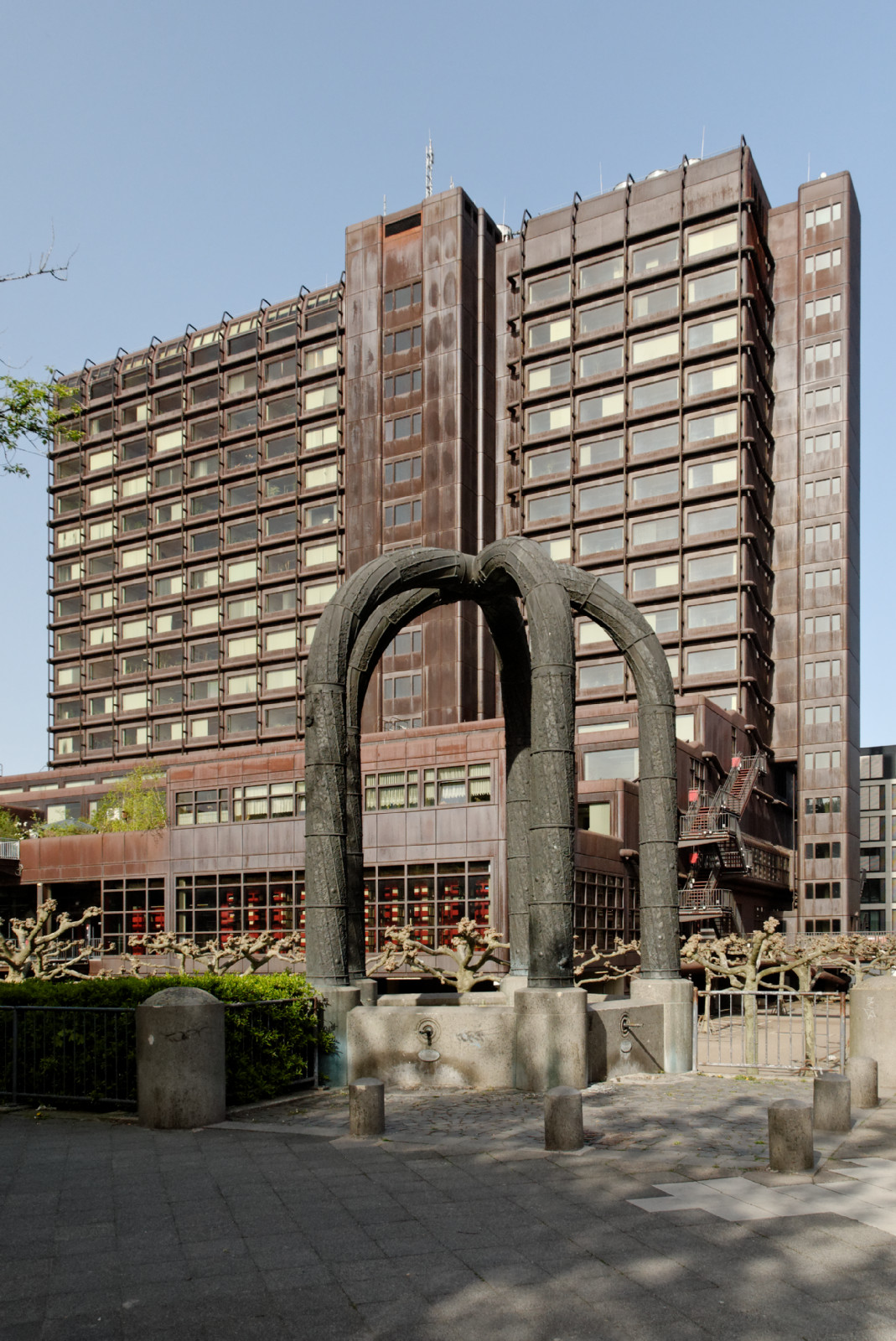 IT.NRW, Mauerstraße 51 in Düsseldorf-Golzheim, Germany